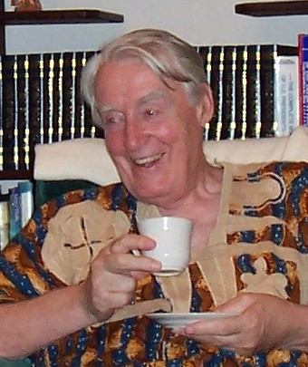 Phonetician Peter Ladefoged, 2004, Duncanville, TX.